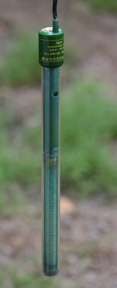 A typical, glass-tube immersion type heater. Photo: Dr. David Midgley